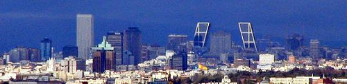 Skyline of Madrid, Spain